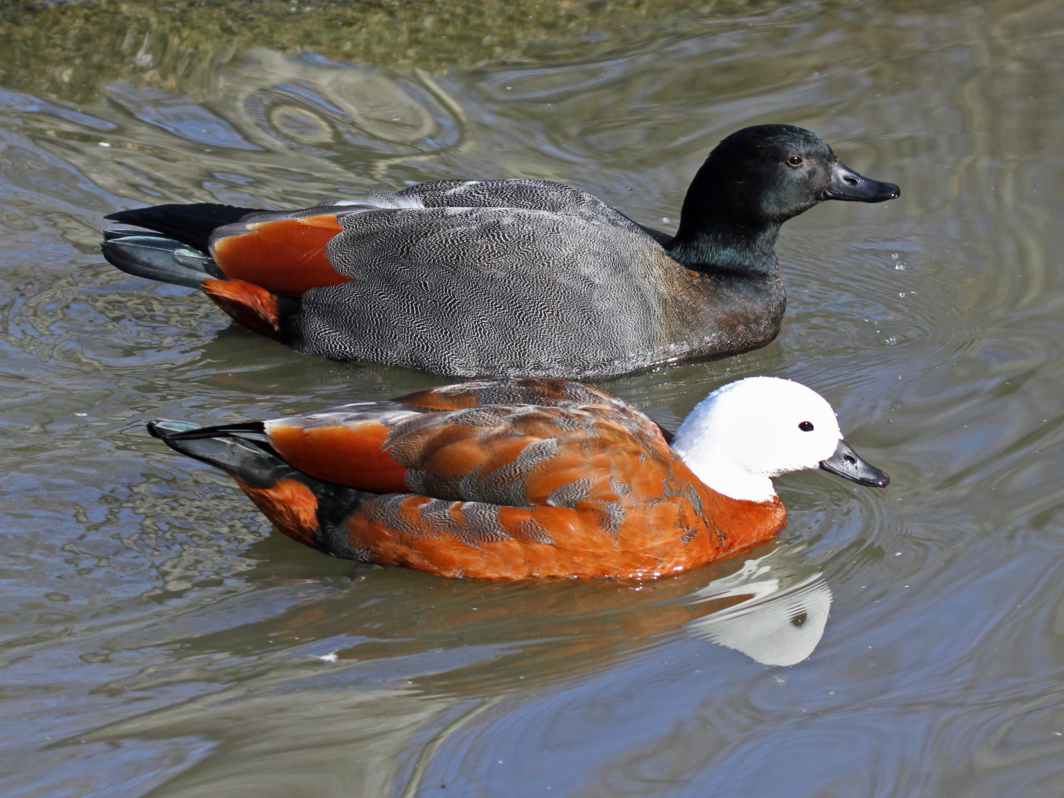 Paradise Shelduck (Tadorna variegata) - Sylvan Heights Waterfowl Park, Scotland Neck, North Carolina